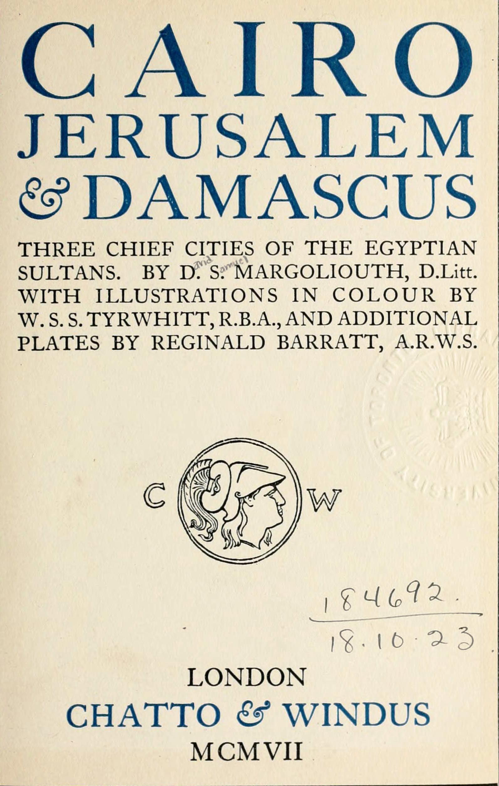 Cairo, Jerusalem, and Damascus by David Samuel Margoliouth.